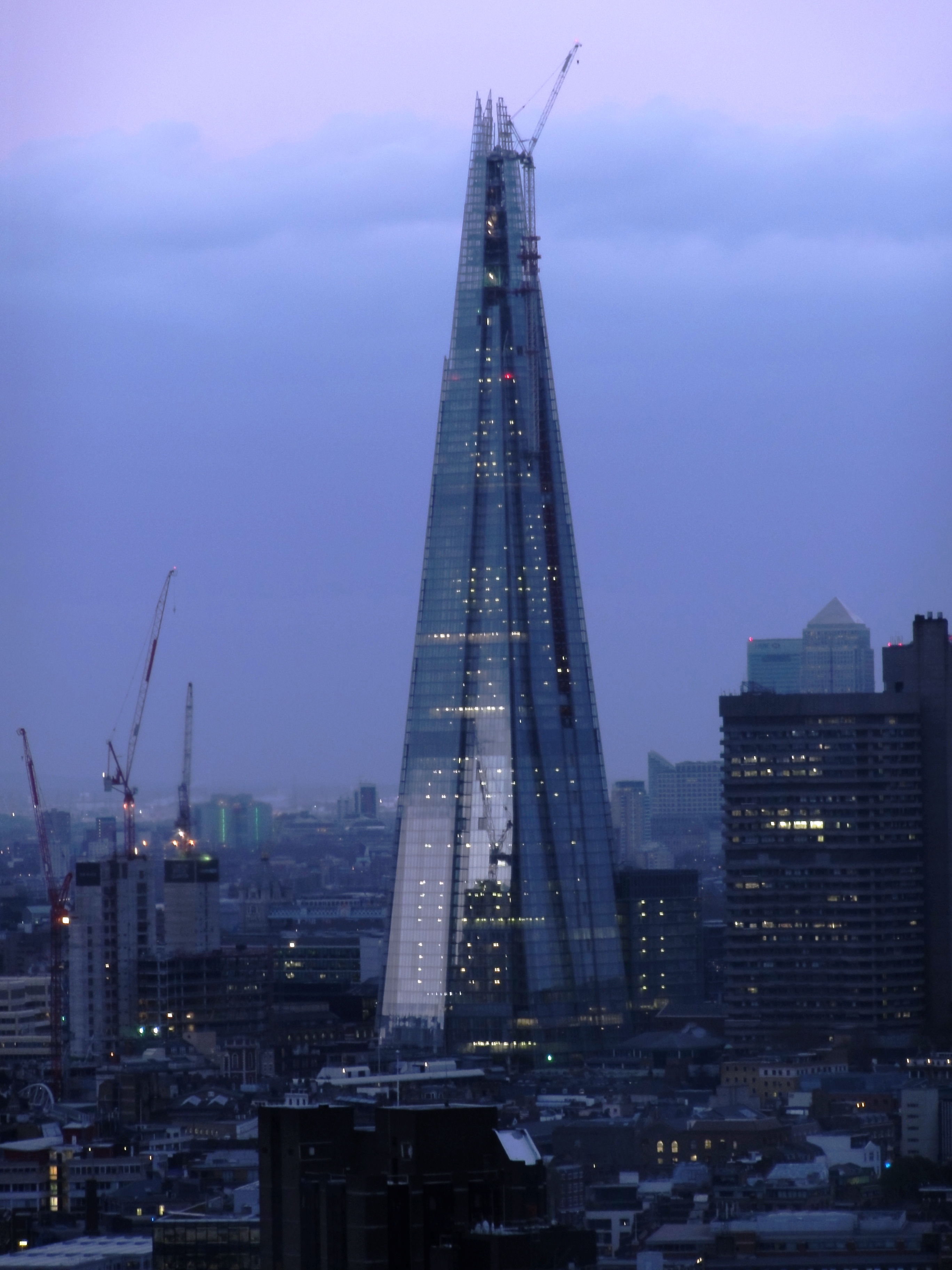 Camera shot from the London Eye